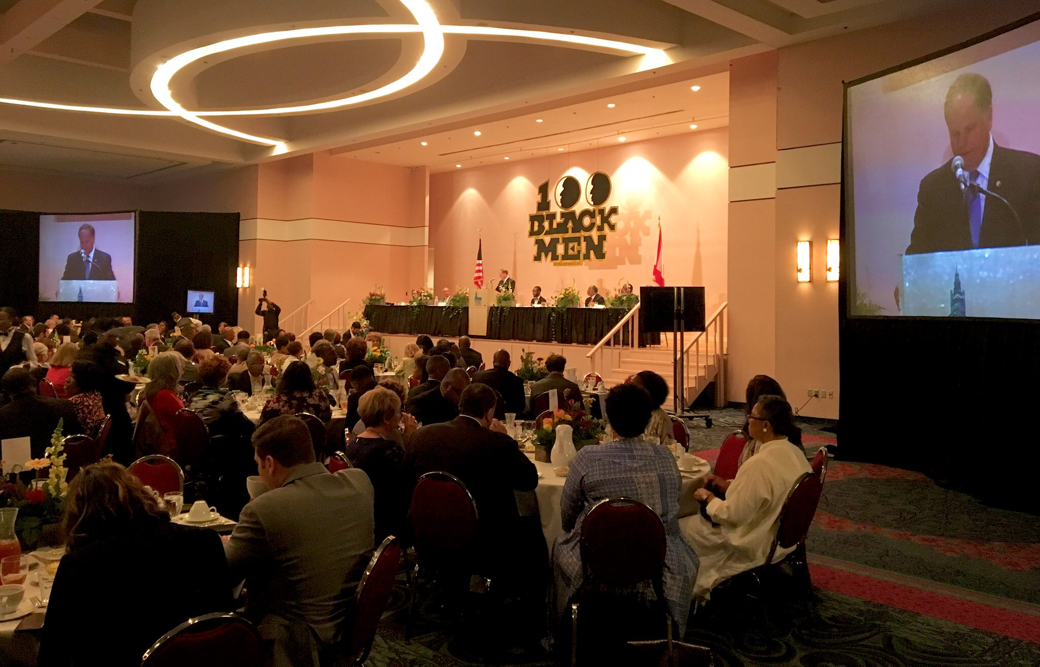 The best thing we can do for younger generations is to lead by example - a core belief of the @100BlackMen non-profit organization. I was honored to be your gala’s keynote speaker last night and to support your commitment to community growth.